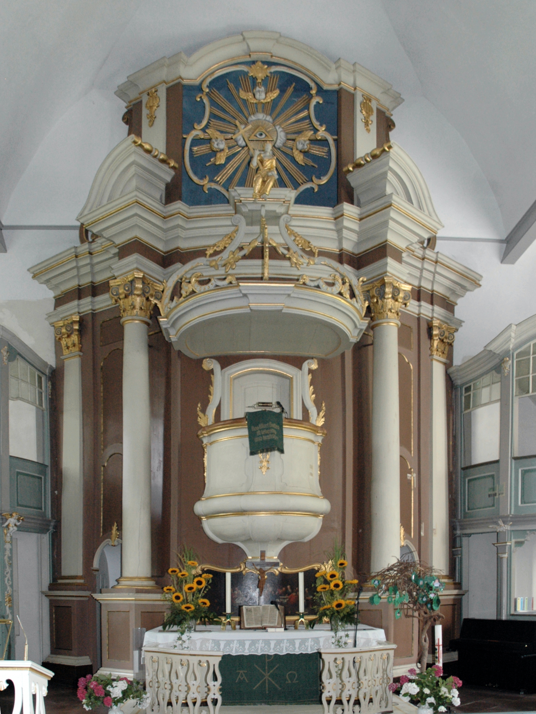 St. Lucas-Church in Scheeßel, altar and lectern